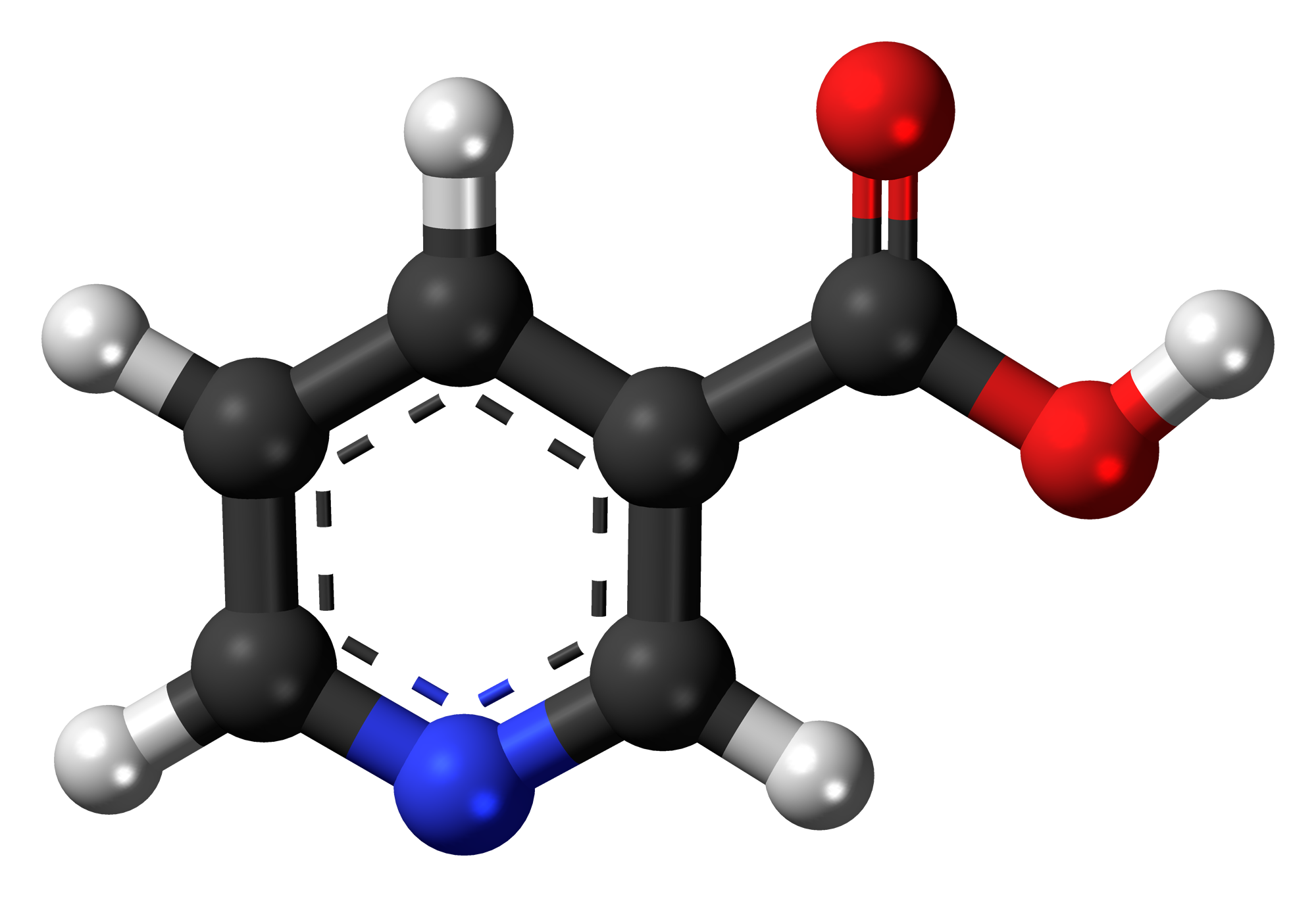 Ball-and-stick model of the niacin molecule, also known as Vitamin B3 and nicotinic acid, an essential human nutrient. Colour code: Carbon, C: black Hydrogen, H: white Oxygen, O: red Nitrogen, N: blue